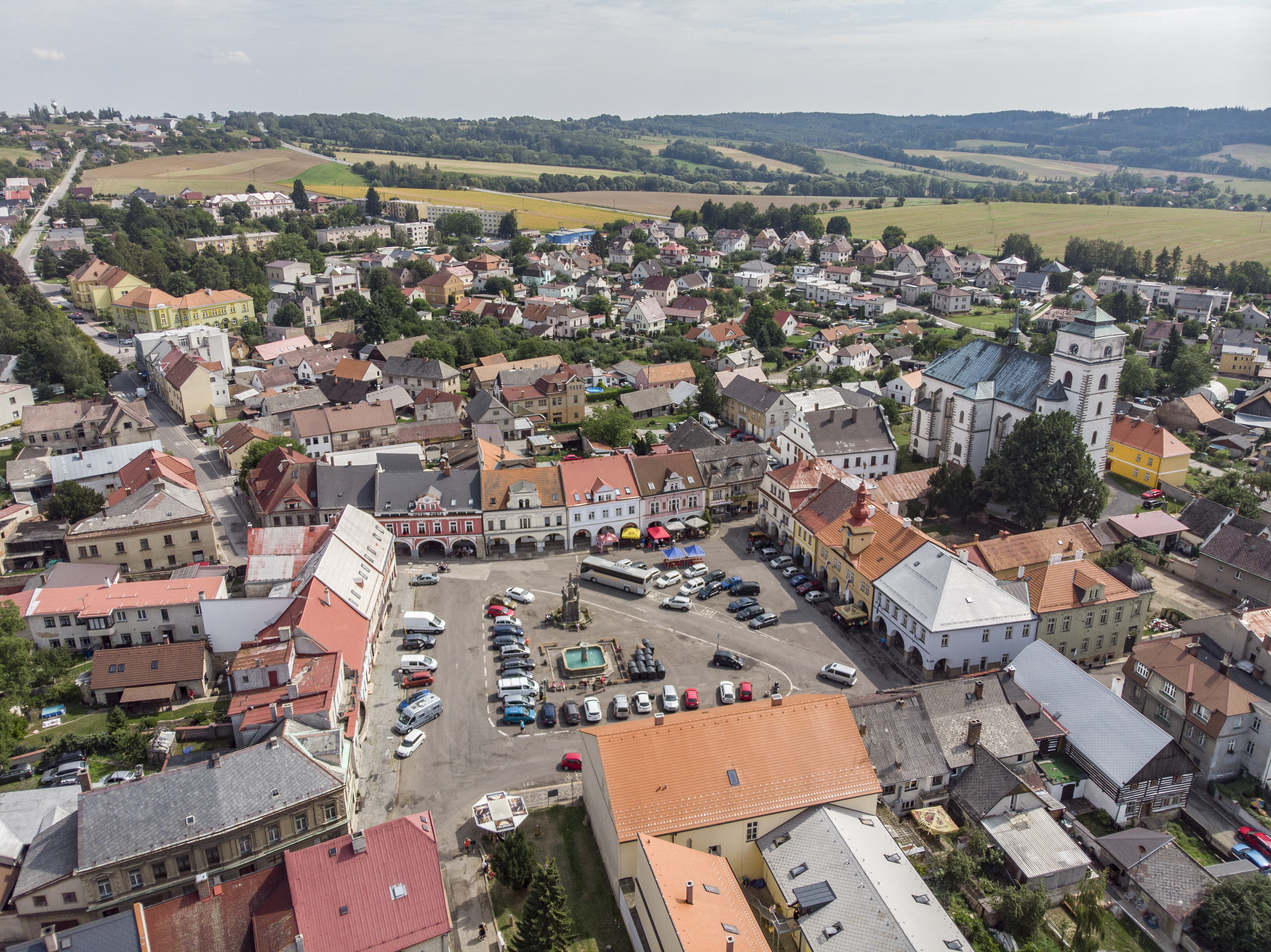 Namesti miru square in Sobotka, Czech Republic - drone shot